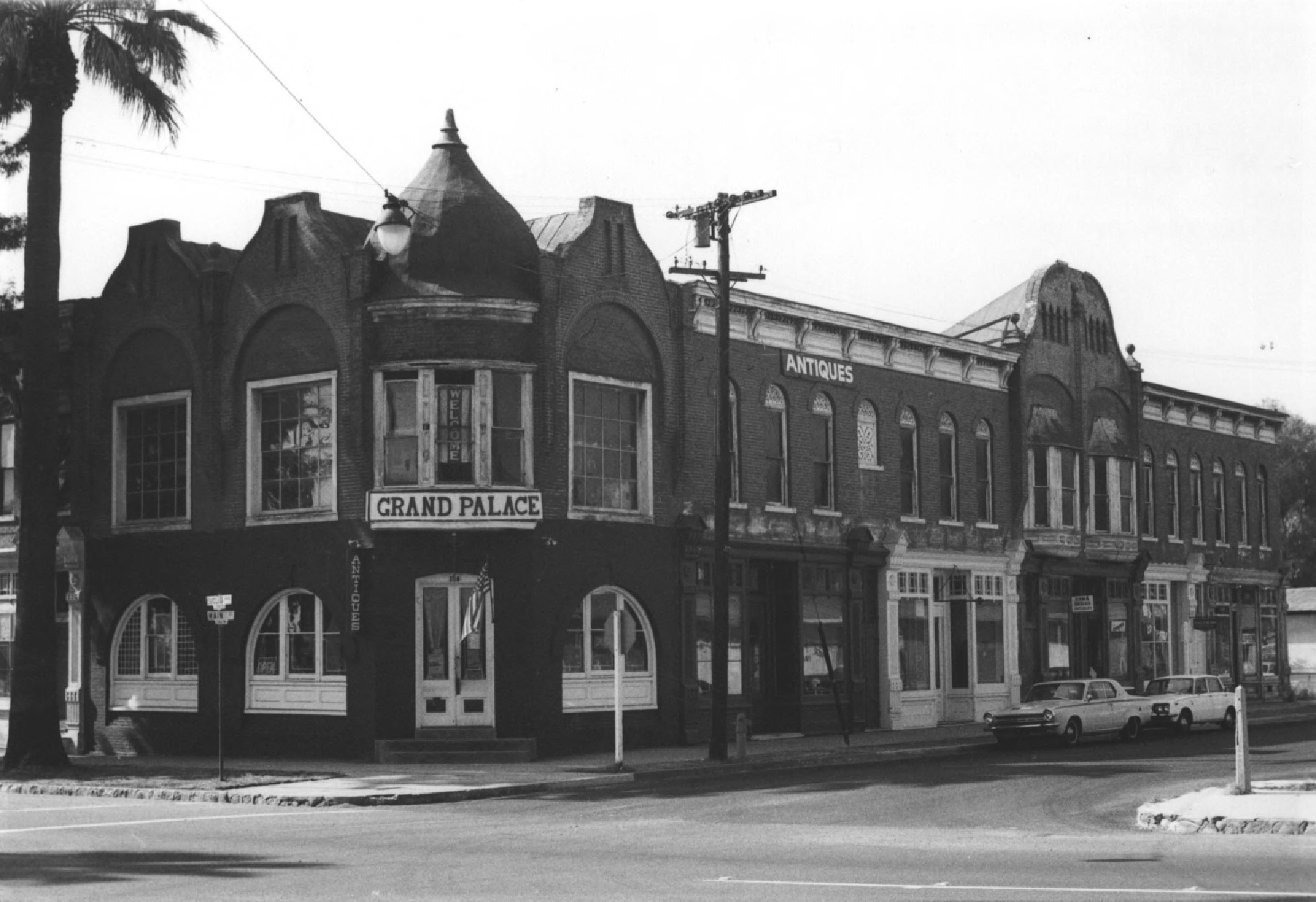 The historic Ontario State Bank Block (built 1887), formerly located at 300 South Euclid Avenue in Ontario, California, United States, was listed on the US National Register of Historic Places in 1982. The building was subsequently demolished.